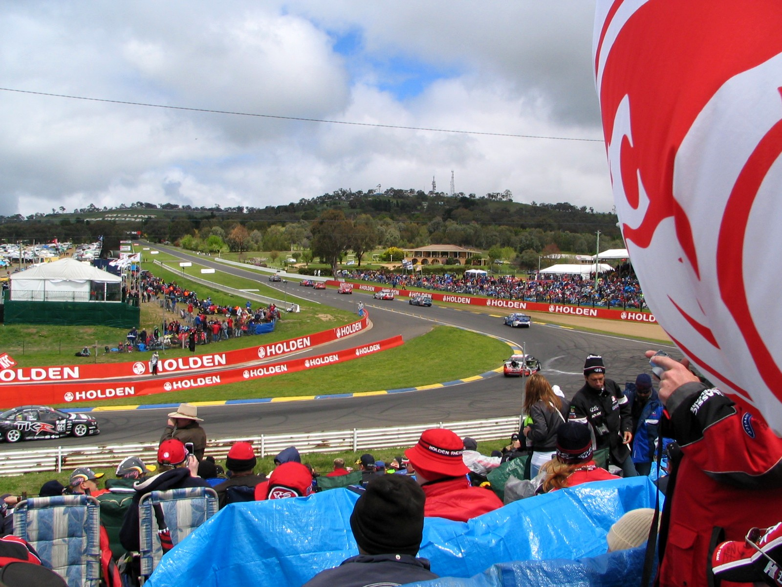 Holden corner of the Mount Panorama Circuit in Australia, during the 2005 Bathurst 1000. Mount Panorama sign in the background.